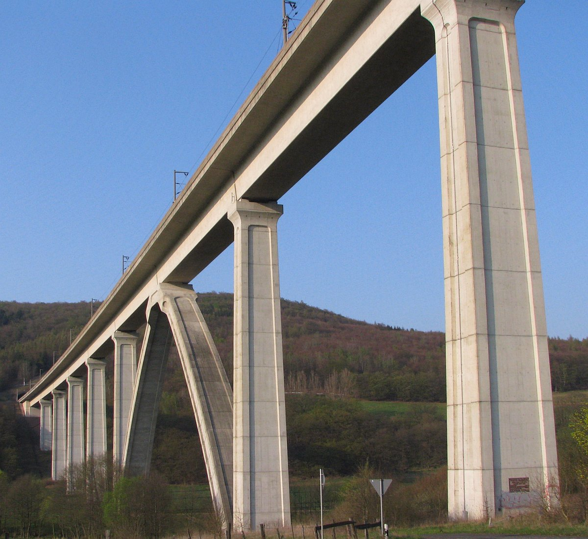 A view from below on Pfieffetal Bridge, in Hesse, Germany.